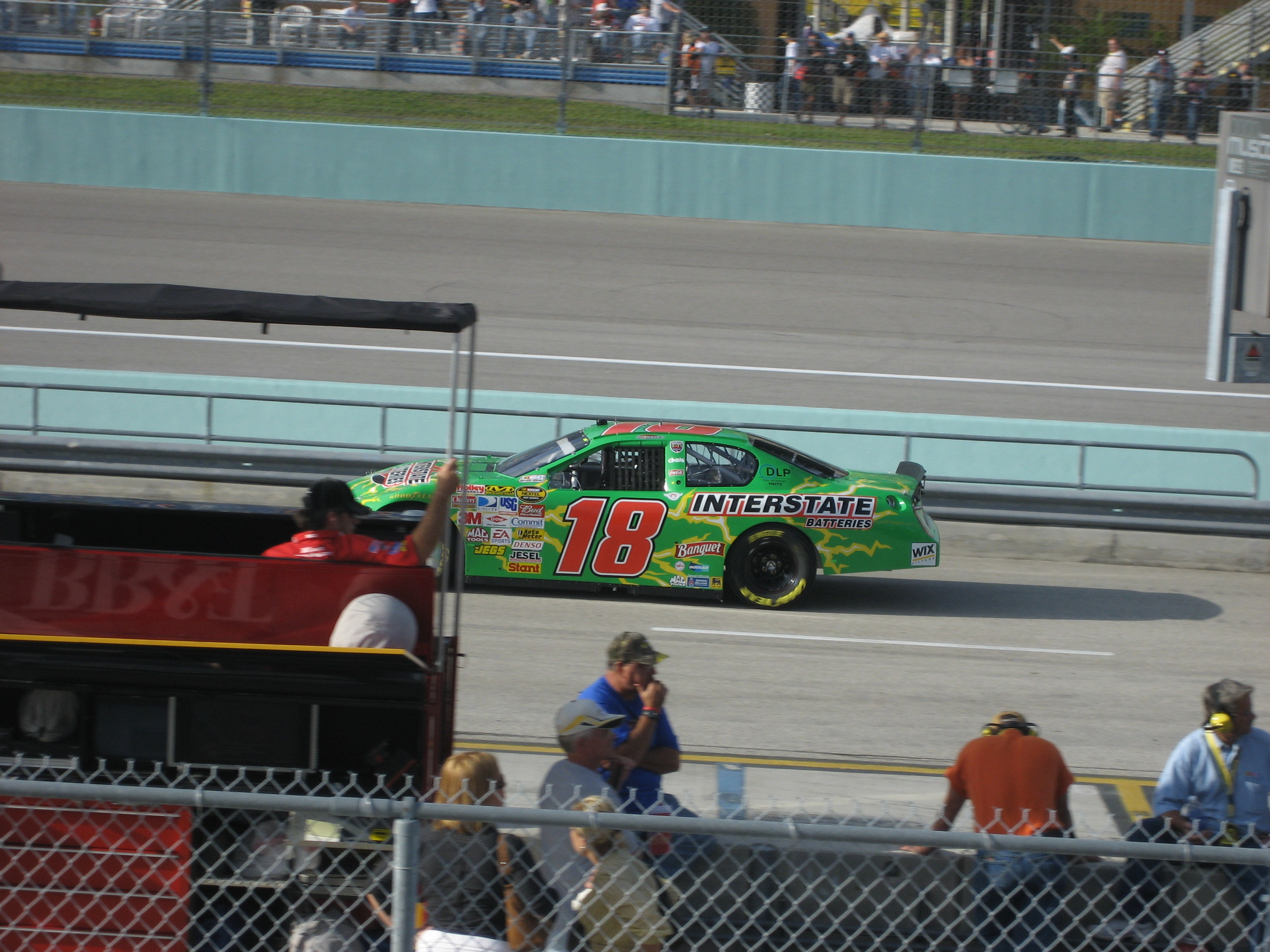 J. J. Yeley practicing for the 2007 Ford 400 at the Homestead-Miami Speedway.